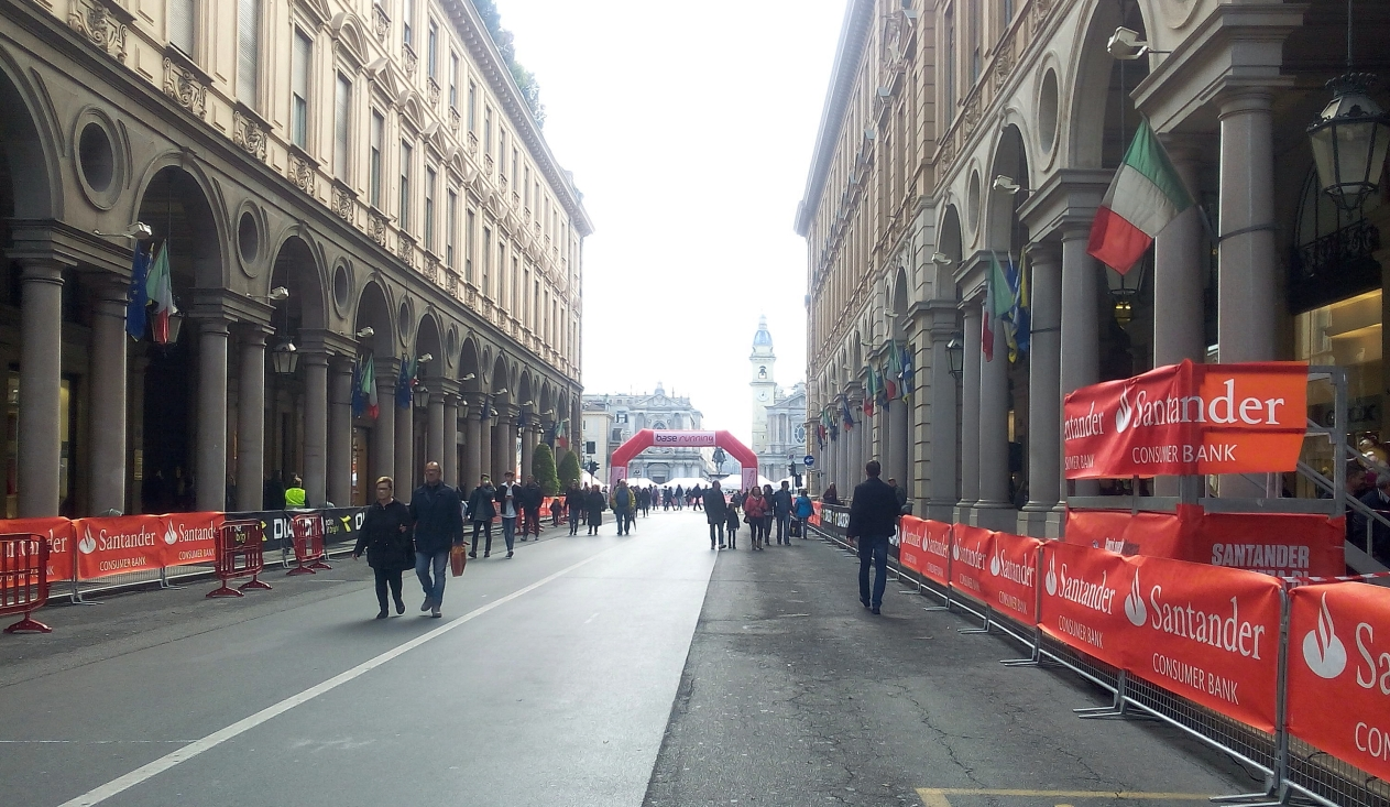 Santander La Mezza di Torino, 2017 venue